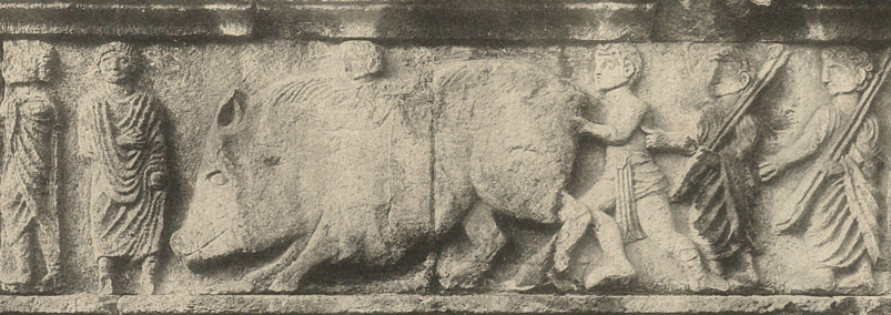 Arch of Augustus, Susa (Piedmont), Detail of the North Frieze